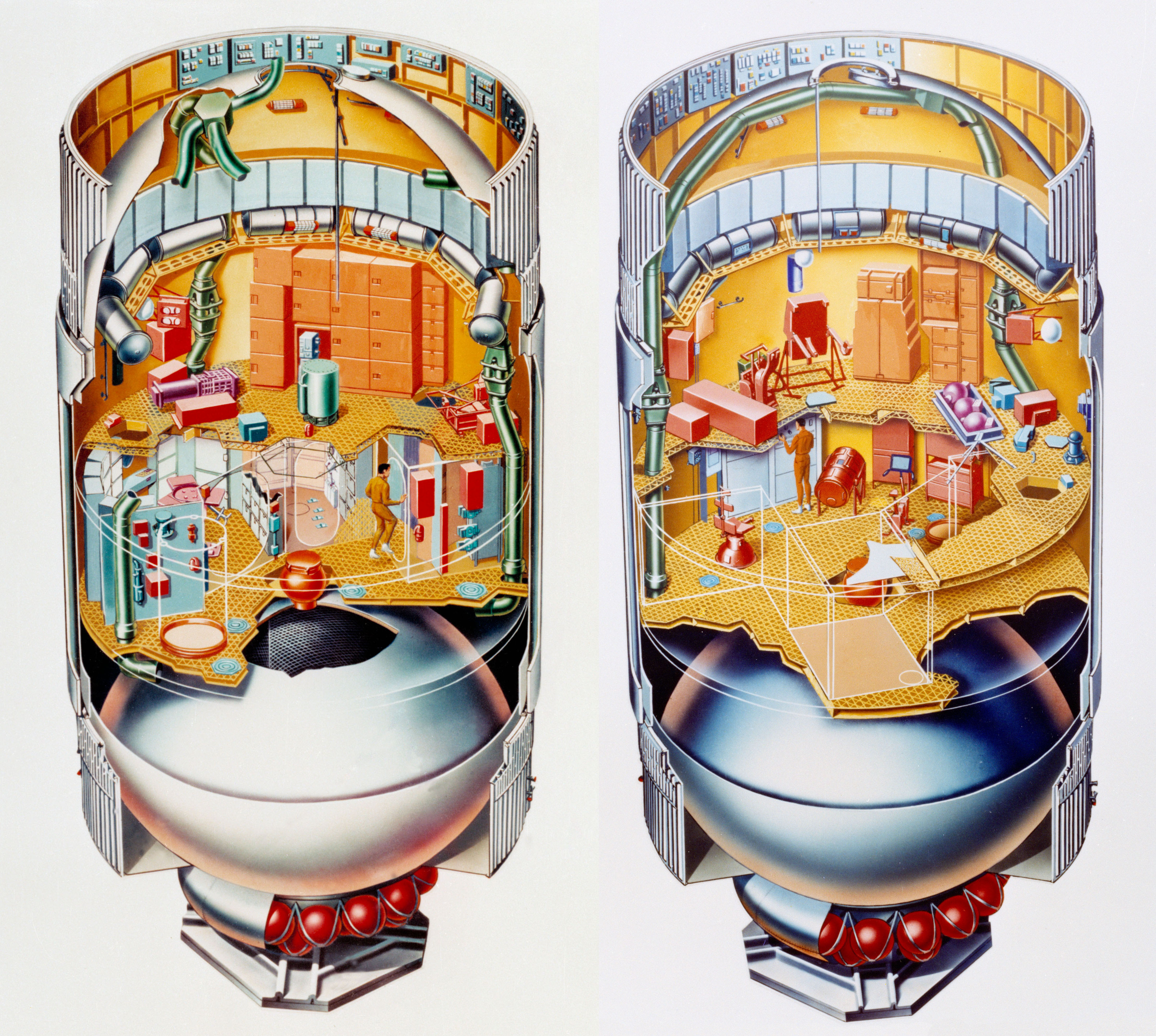 Two cutaway views of the orbital workshop showing details of the living and working quarters.